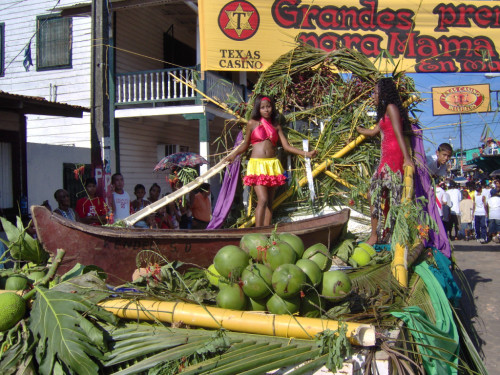 This is a shot of some beautiful costenas in the parade during the Palo de Mayo festival in Bluefields.